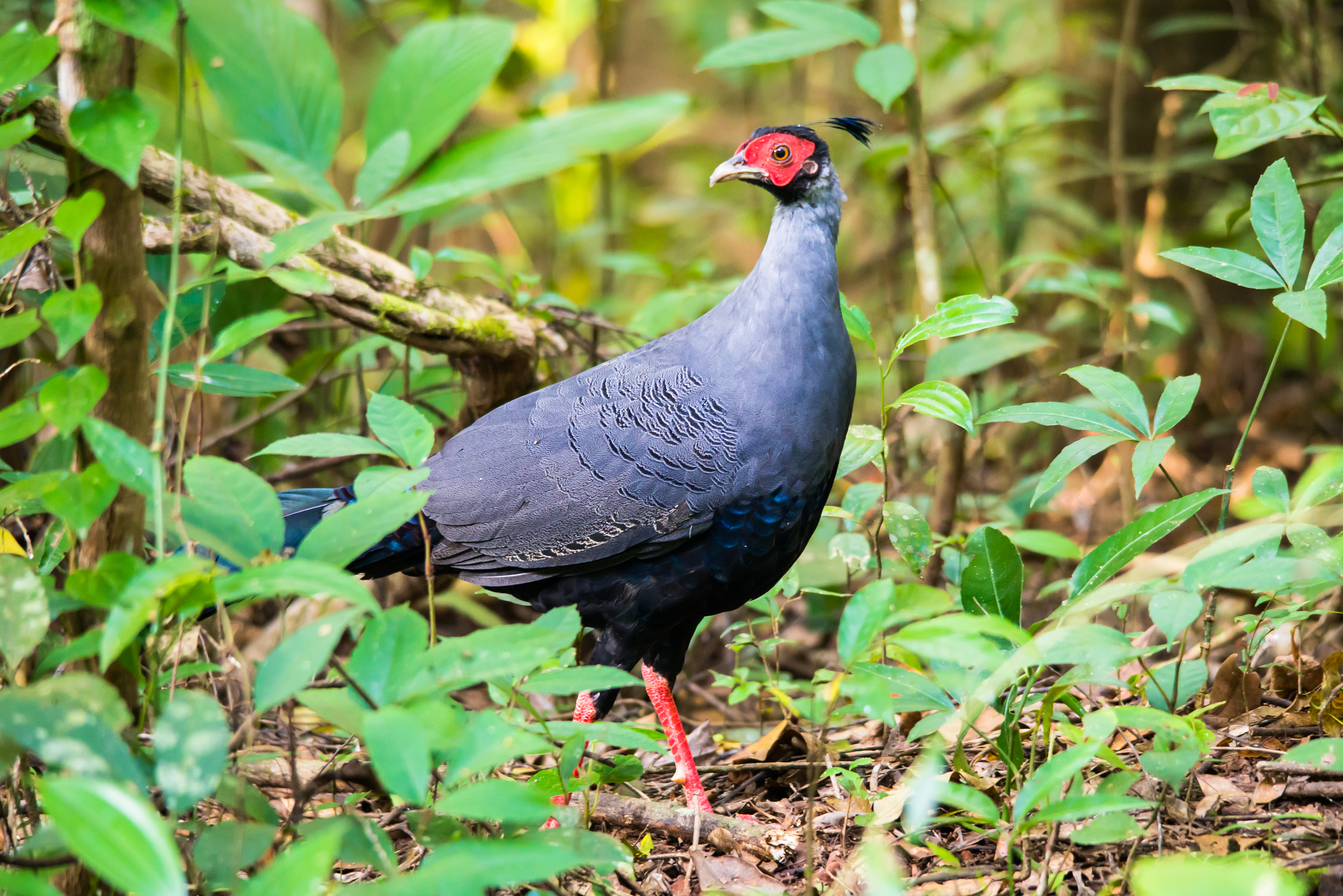 Lophura diardi commonly known as Siamese fireback. Photo by Thai National Parks, Thailand.